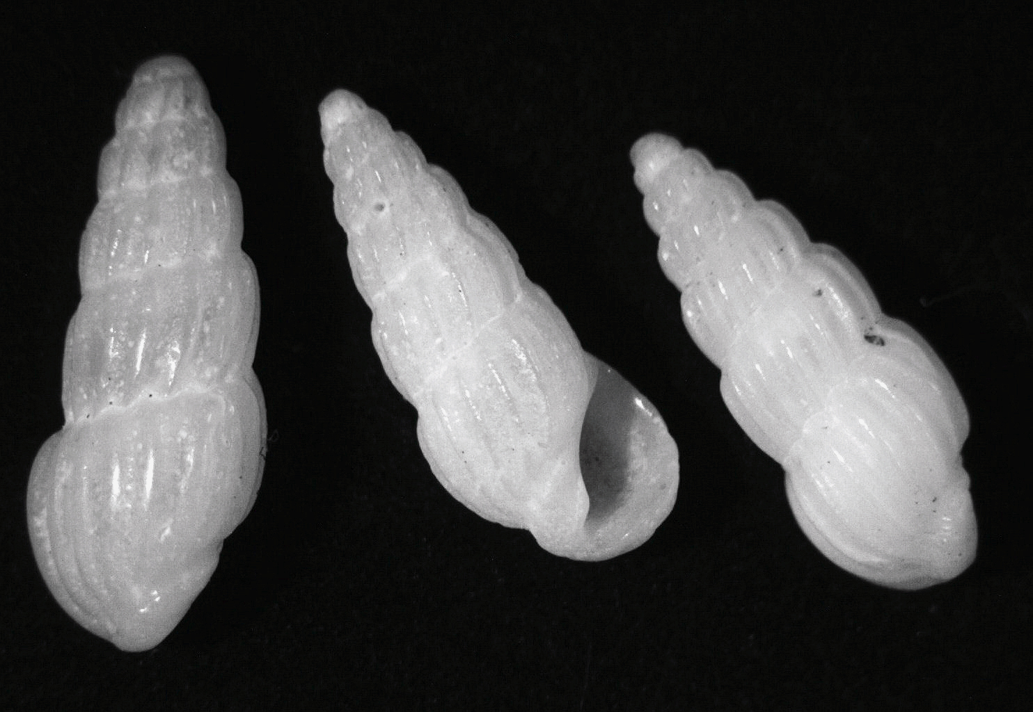 Rissoina crassa G. F. Angas, 1871, a sea snail from the family Rissoinidae; South Australia